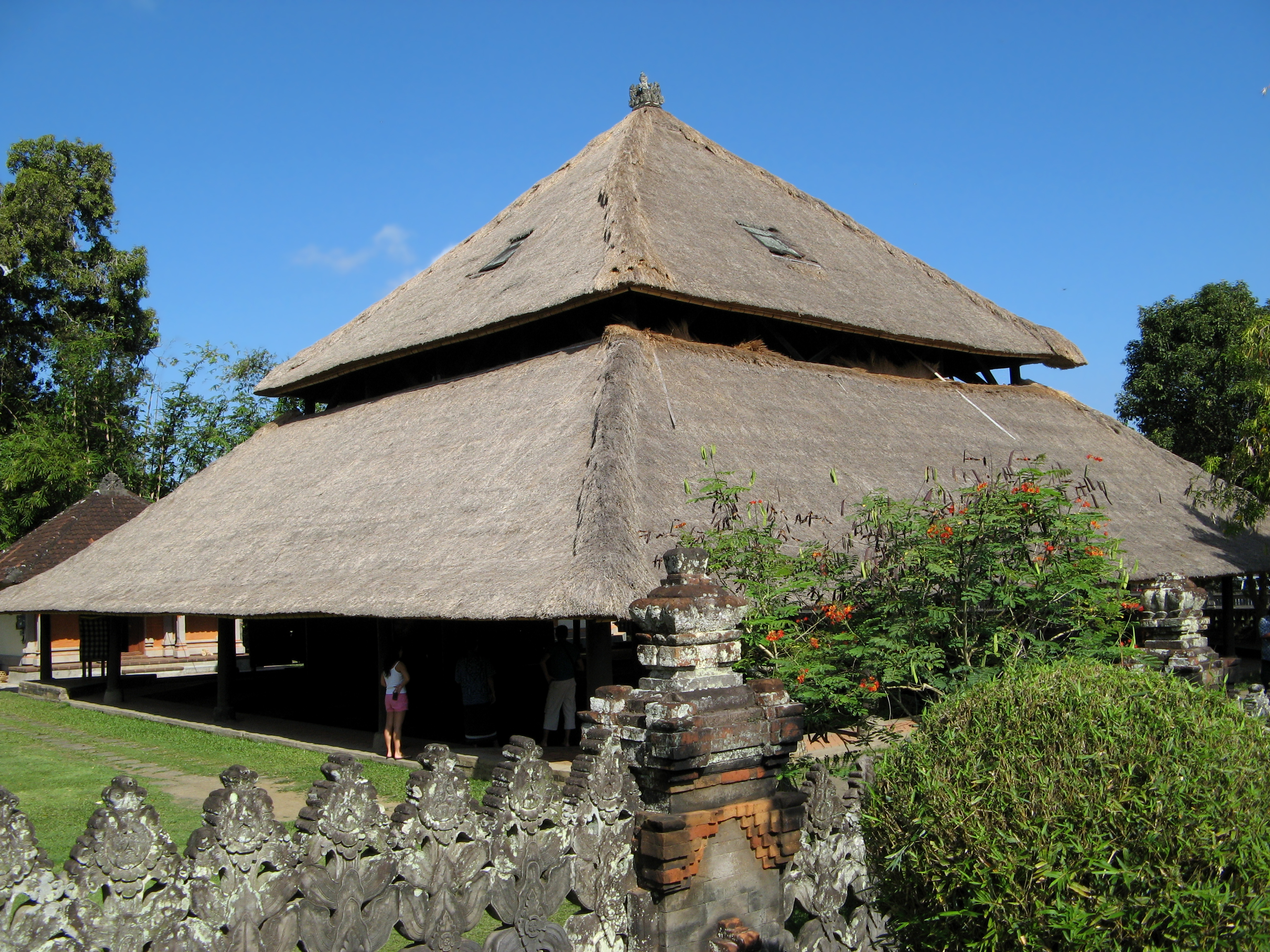 Cockfighting Pavilion. Pura Taman Ayun, Mengwi. It may seem odd to build a cockfighting venue on the grounds of a temple, but that is the Balinese way. It is located in the kelod direction, near the entrance, which is the least pure part of the temple.